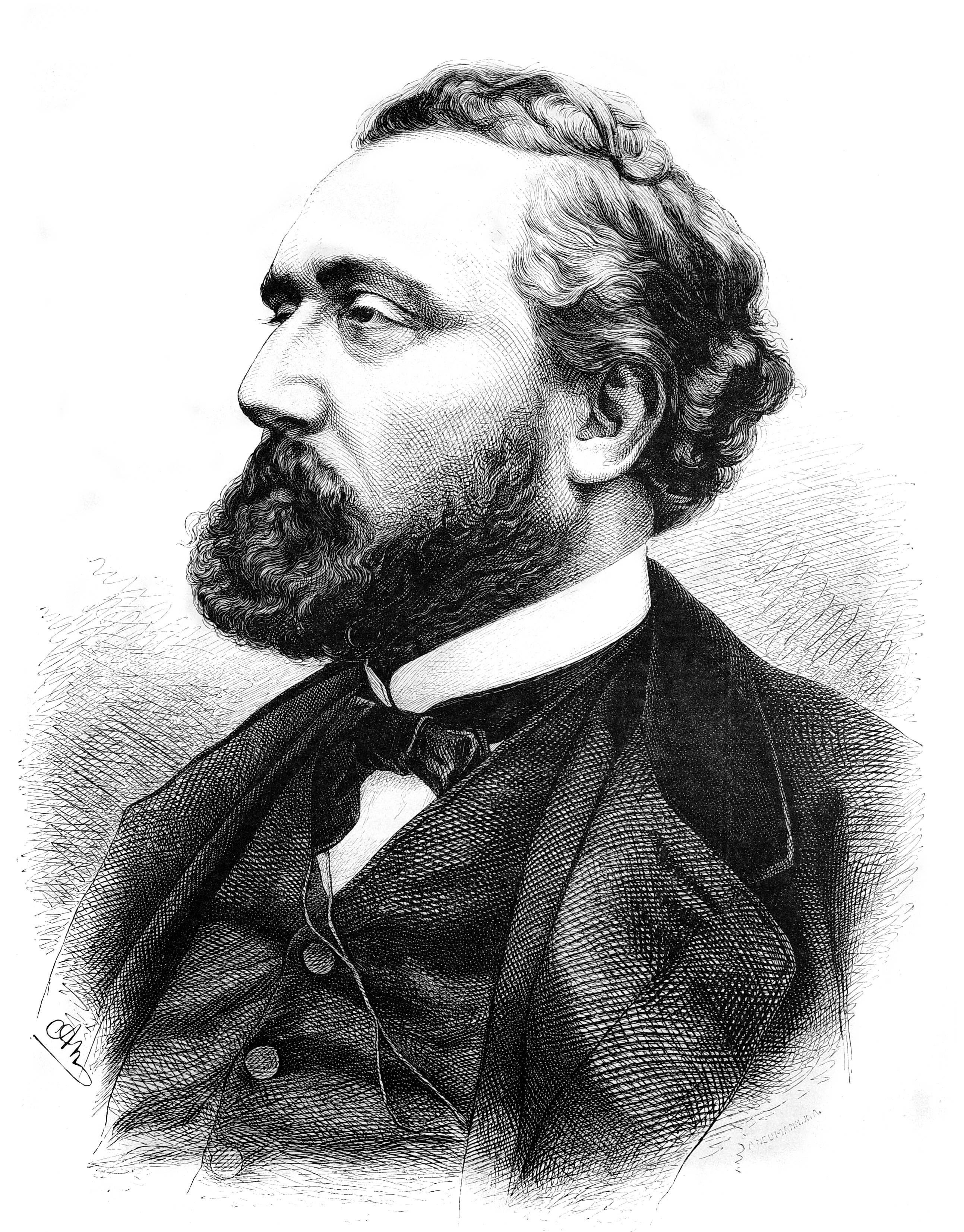 caption: "Leon Gambetta. Nach einer Photographie auf Holz gezeichnet von Adolf Neumann."